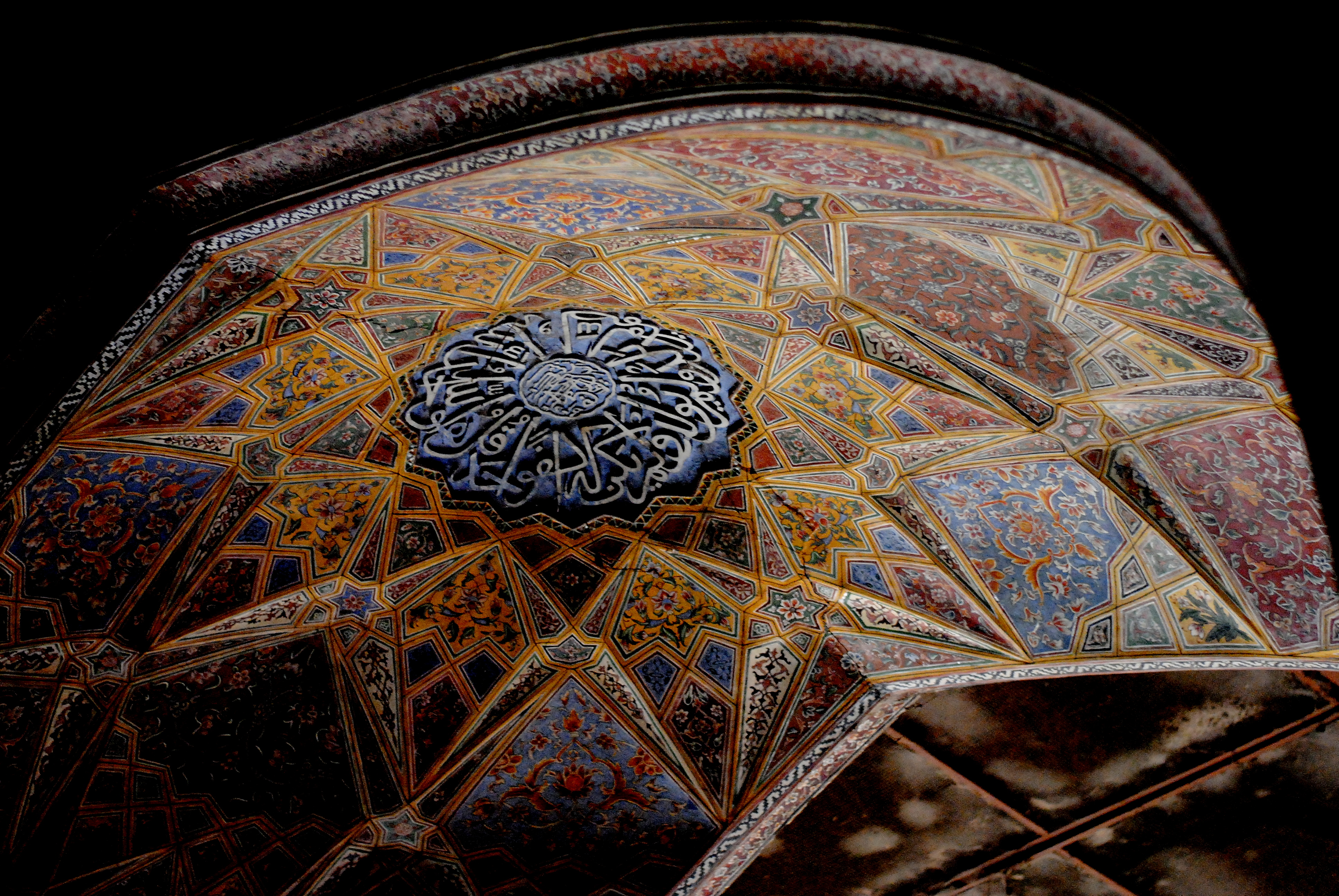 Wazir Khan Mosque This is a photo of a monument in Pakistan identified as the PB-100